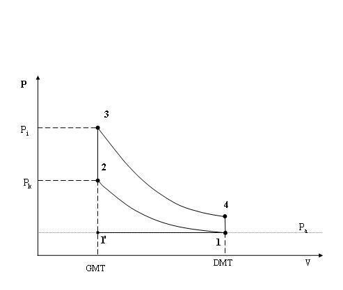 diagram of otto cycle